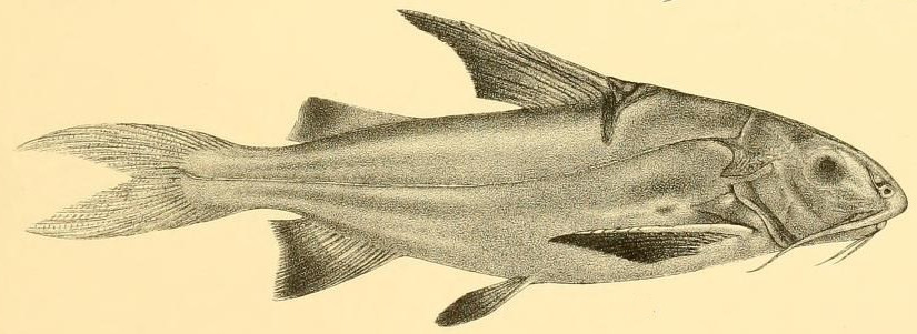 The fishes of India :London :B. Quaritch,[1875]-1878.